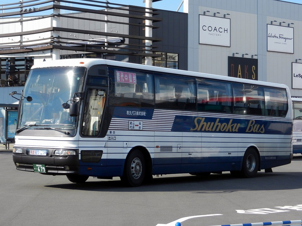 Shuhoku bus Mitsubishi Fuso Aero Queen I (U-MS821P) for highwaybus "Futatsui,Noshiro-Sendai"